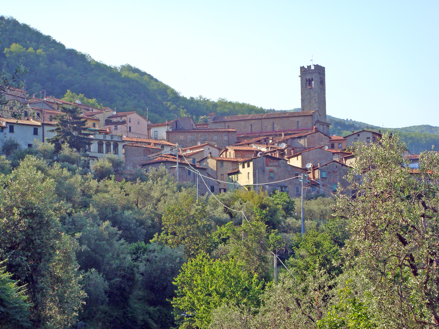 View of Villa Basilica